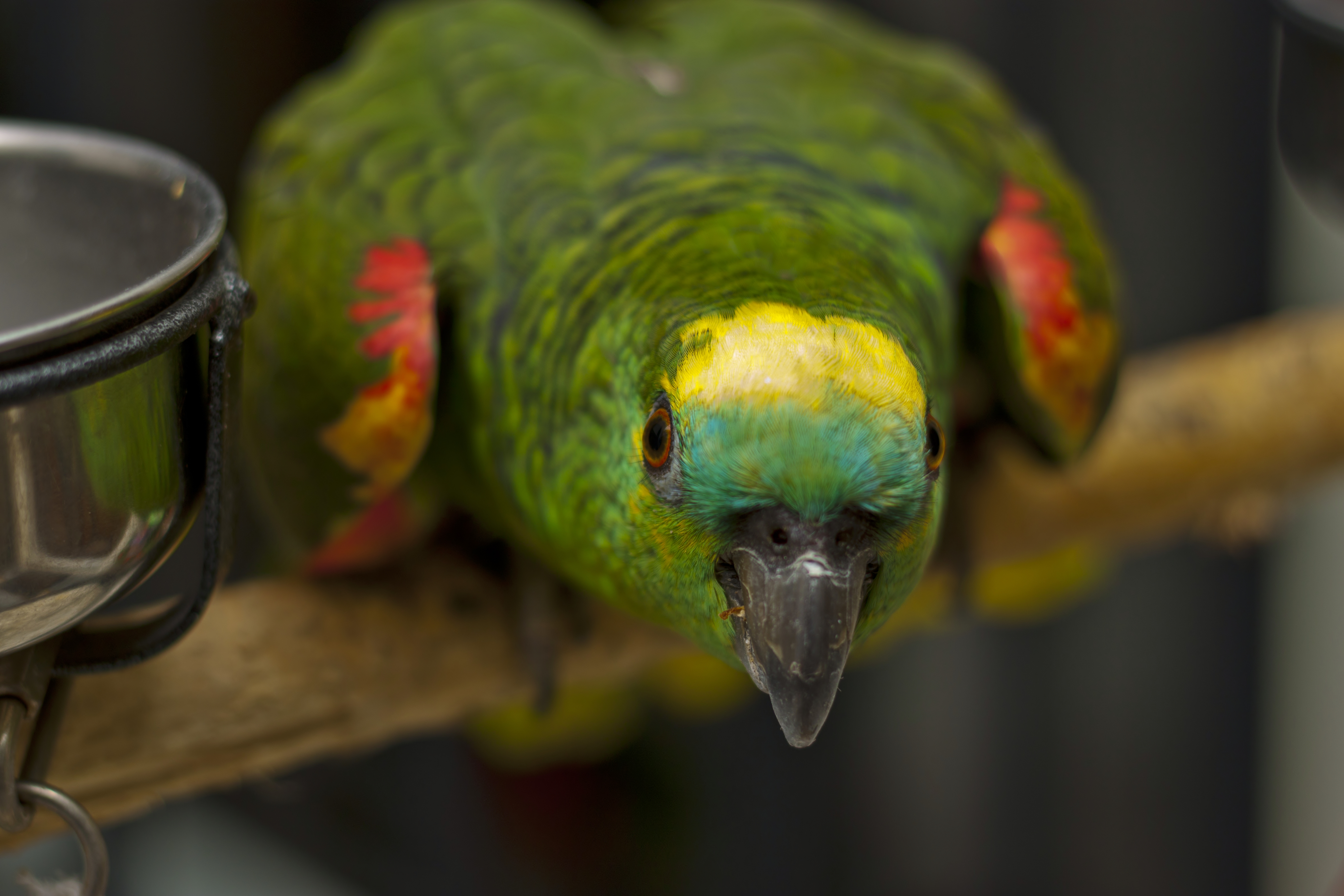 A pet Blue-fronted Amazon in Buenos Aires, Argentina.